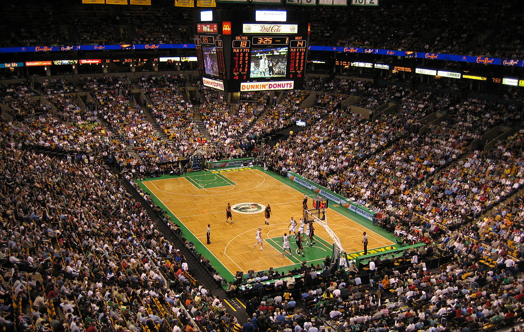 Photo of game between Boston Celtics and Miami Heat.